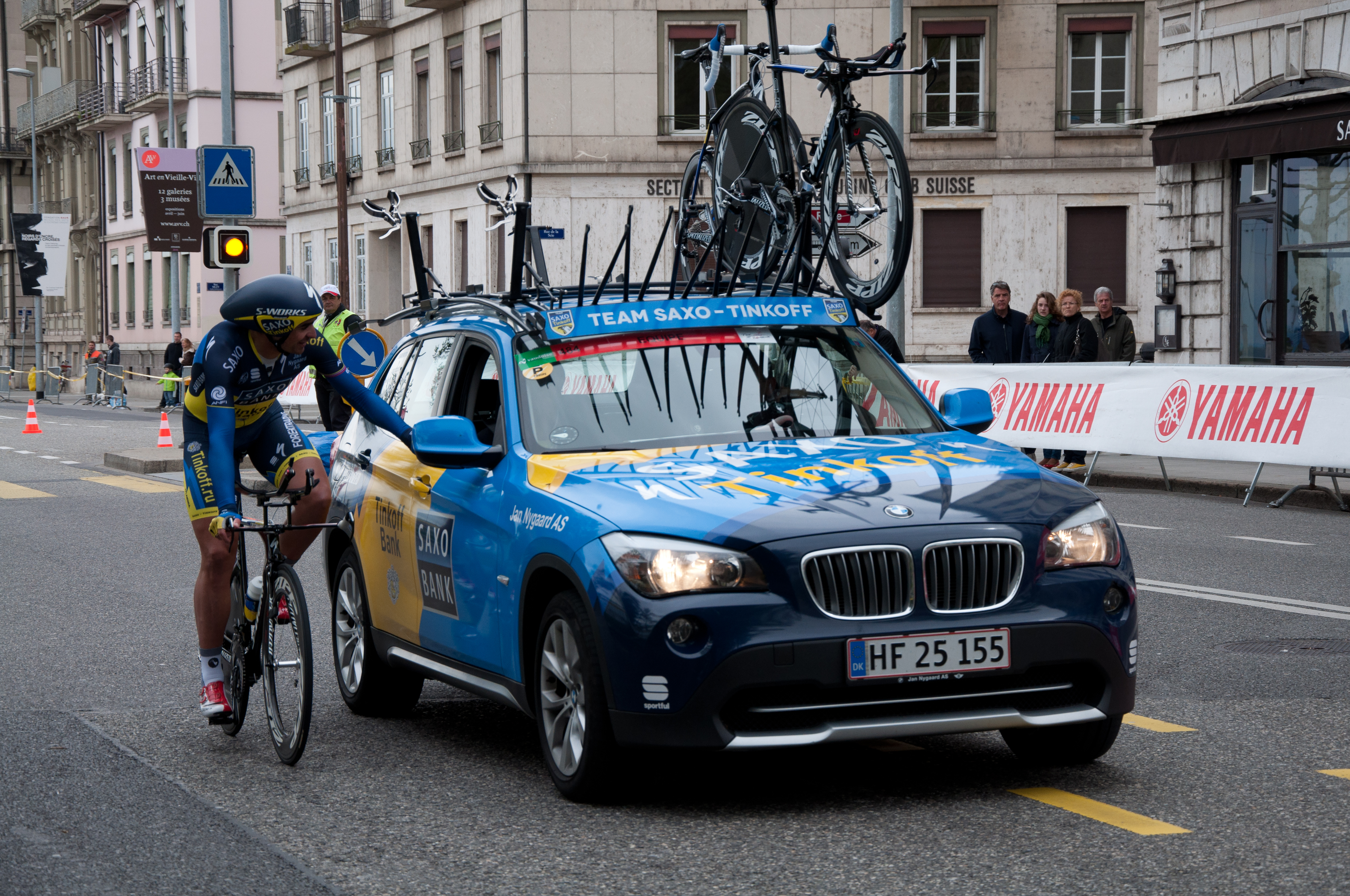 Spanish professional cyclist Benjamín Noval after the end of the 2013 Tour de Romandie's fifth stage.